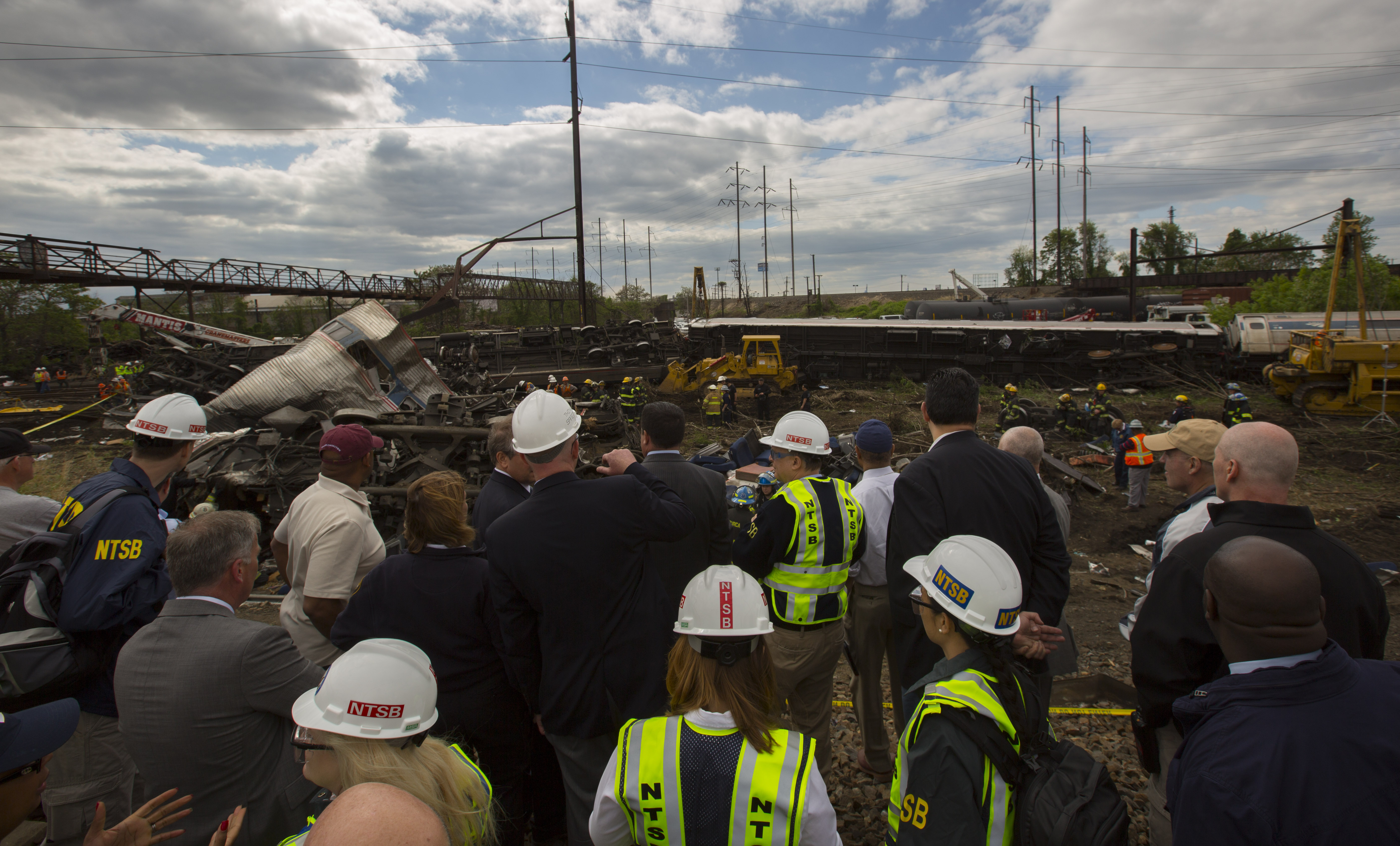 The NTSB Go Team arrives on the scene of the Amtrak train No. 188 derailment in Philadelphia, Pennsylvania